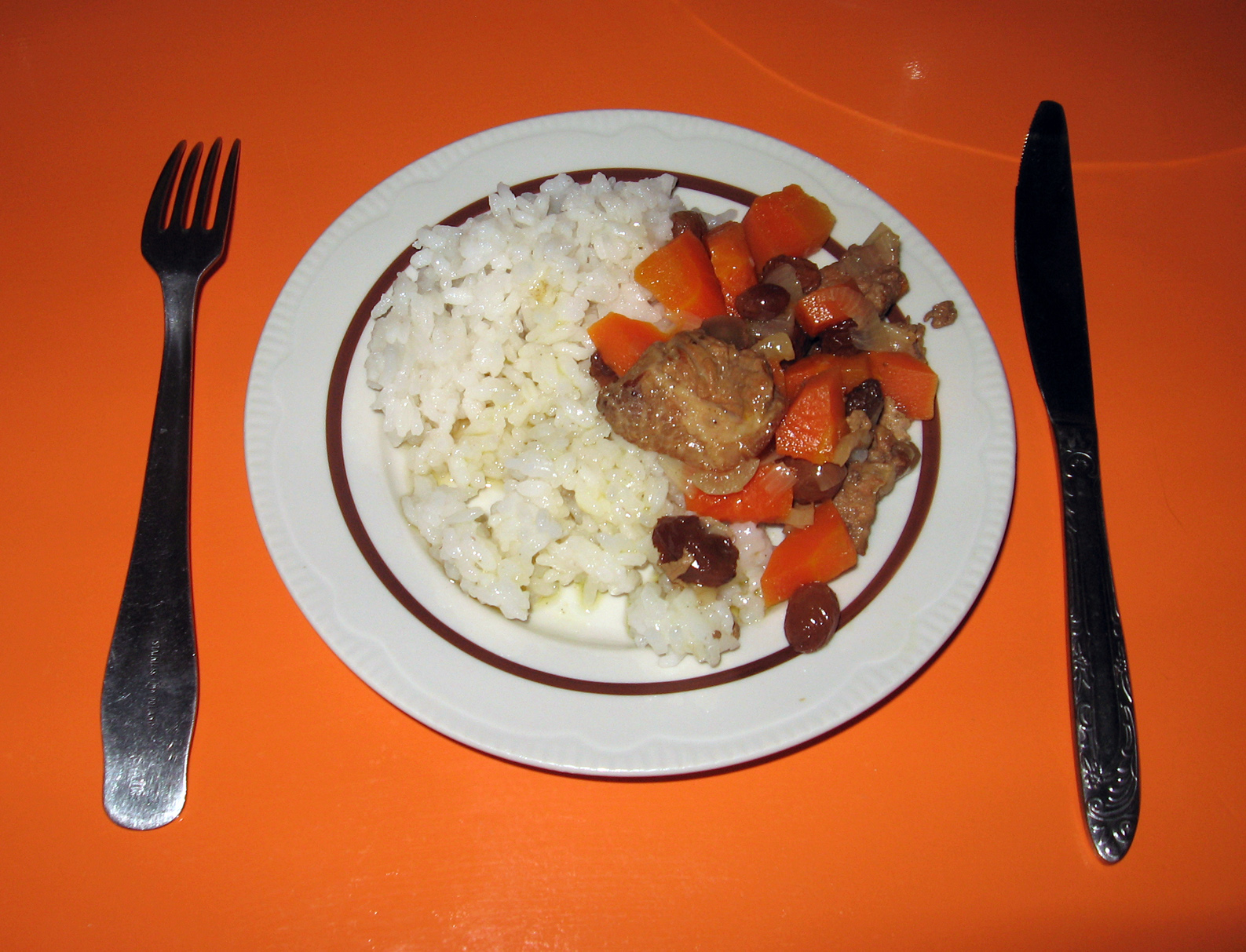 Tzimmes self-made (with rice) Беларуская (тарашкевіца): Цымес уласнага прыгатаваньня з рысам